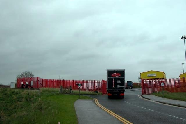 Entrance to the Wakefield Europort. This transport depot allows road haulage in the North of England to load & unload onto trains which go through the Channel Tunnel to Europe.